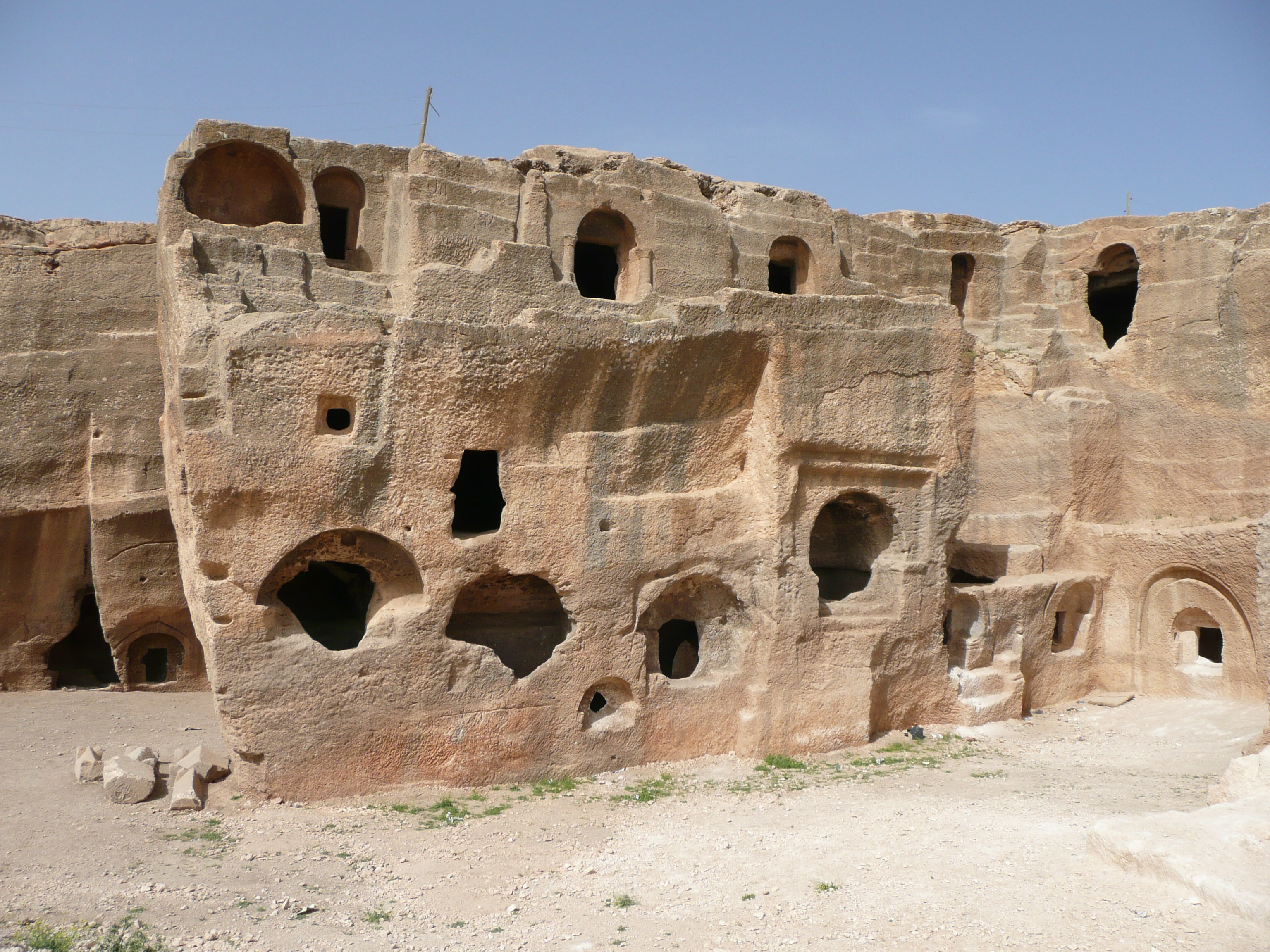 Photographs from Dara, Mardin, Turkey